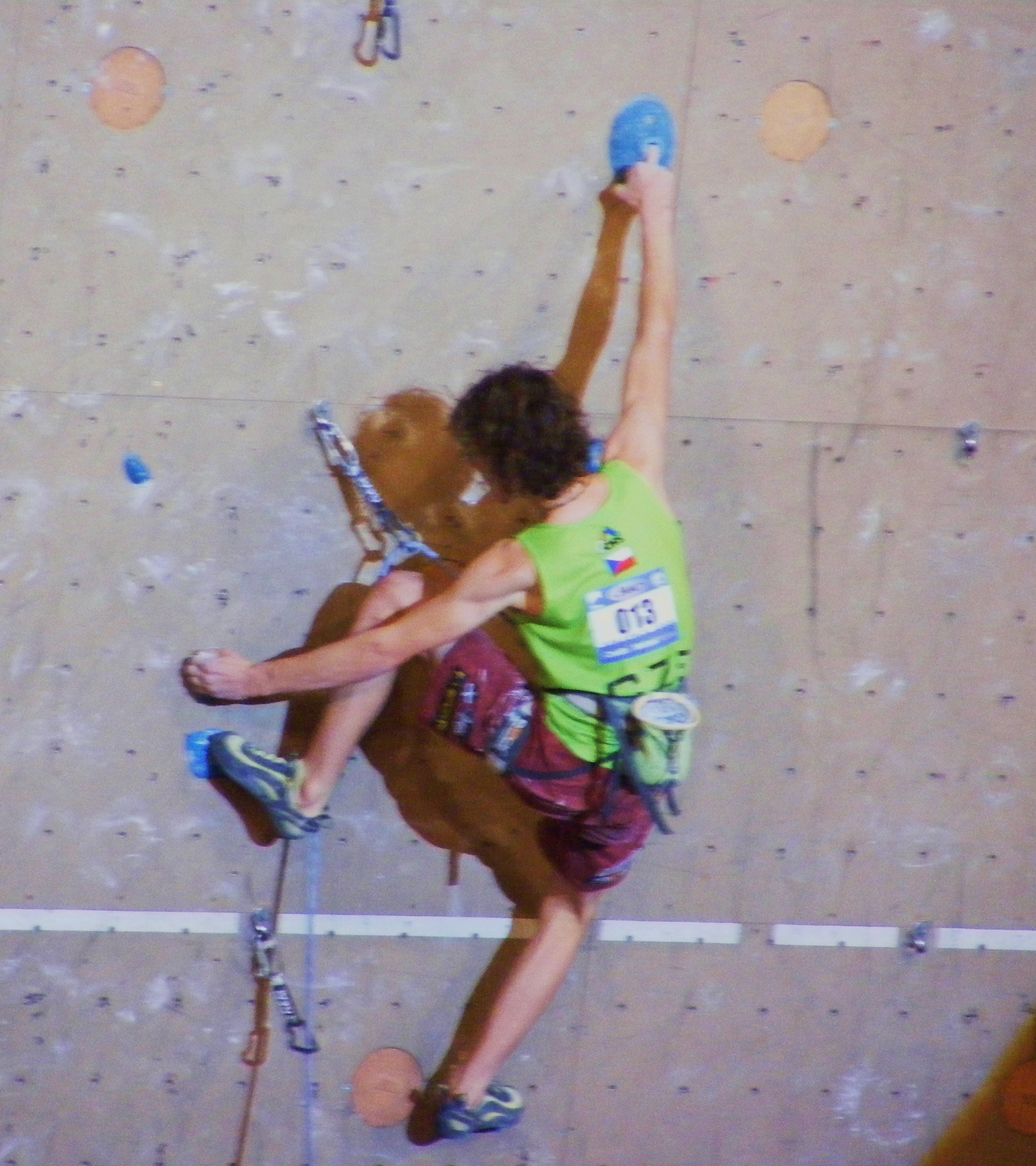 Adam Ondra at Junior Worlds, Valence, France. 2009